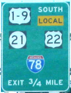 A guide sign in New Jersey. Cropped from Image:Pulaski Skyway south at Passaic River.jpg.